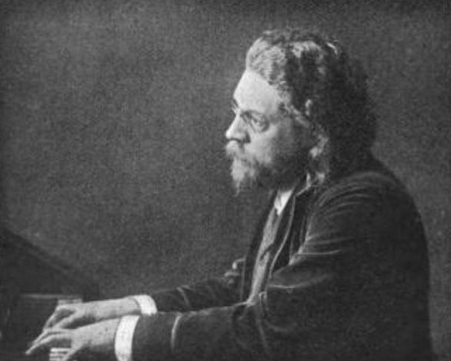 Austrian organist and composer Josef Reiter (1862-1939)